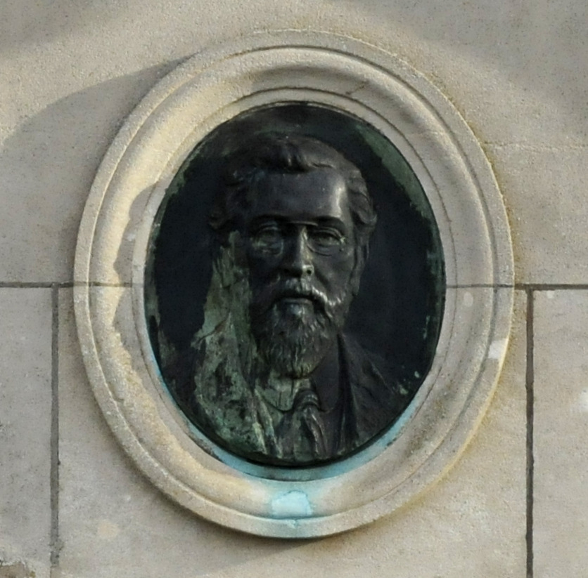 Michel Welter-Memorial, Gaalgebierg, Esch-sur-Alzette